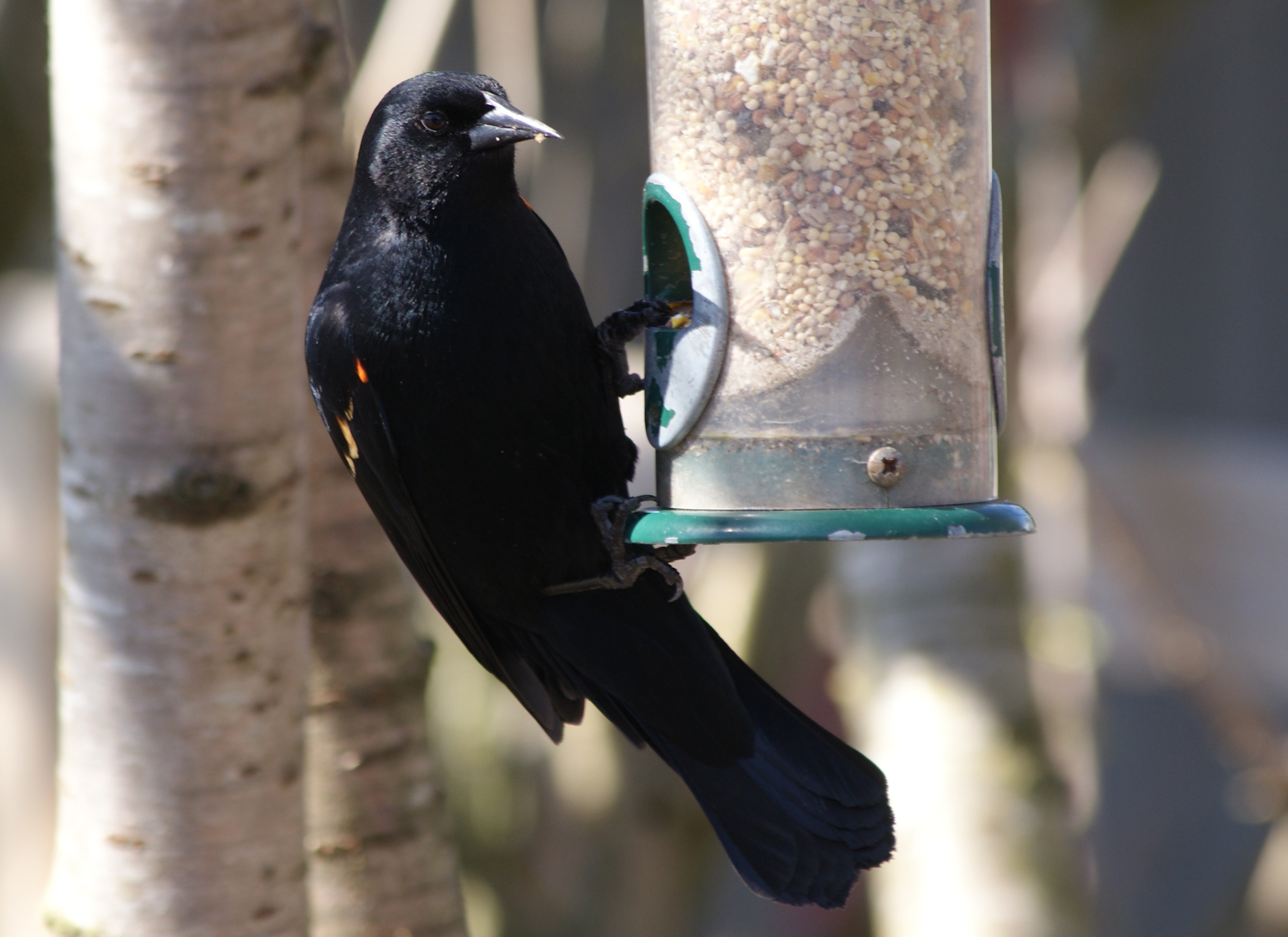 A male Red-winged Blackbird on a bird feeder in George C. Reifel Migratory Bird Sanctuary, British Columbia, Canada.